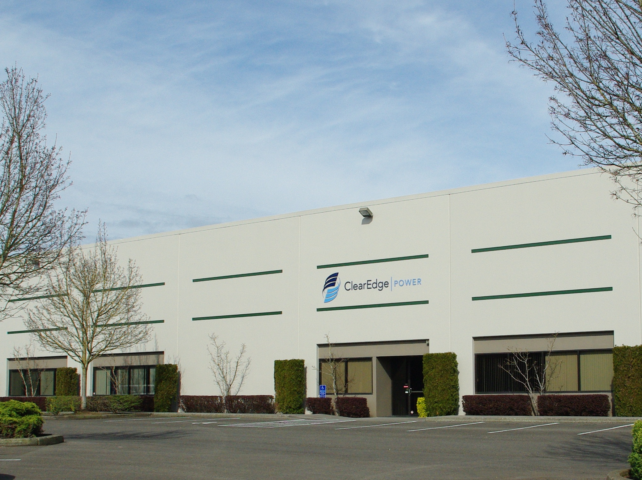 ClearEdge Power production facility in Hillsboro, Oregon.